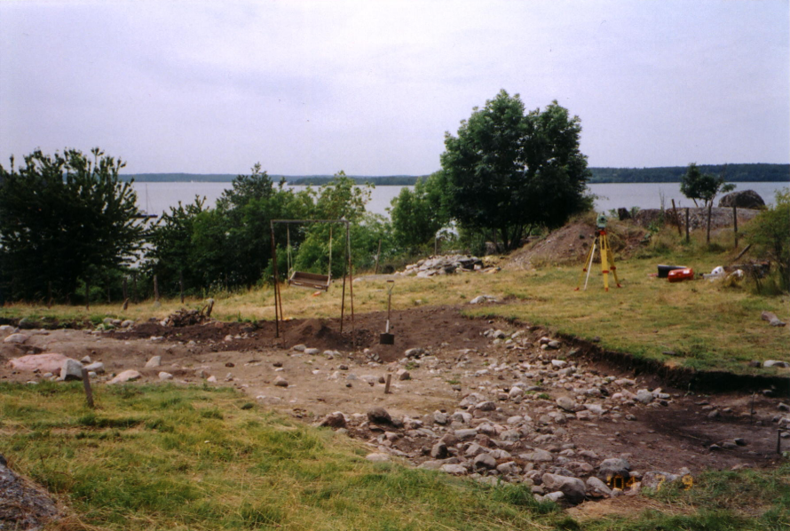 Close shot of the archaeological excavation at Birka.